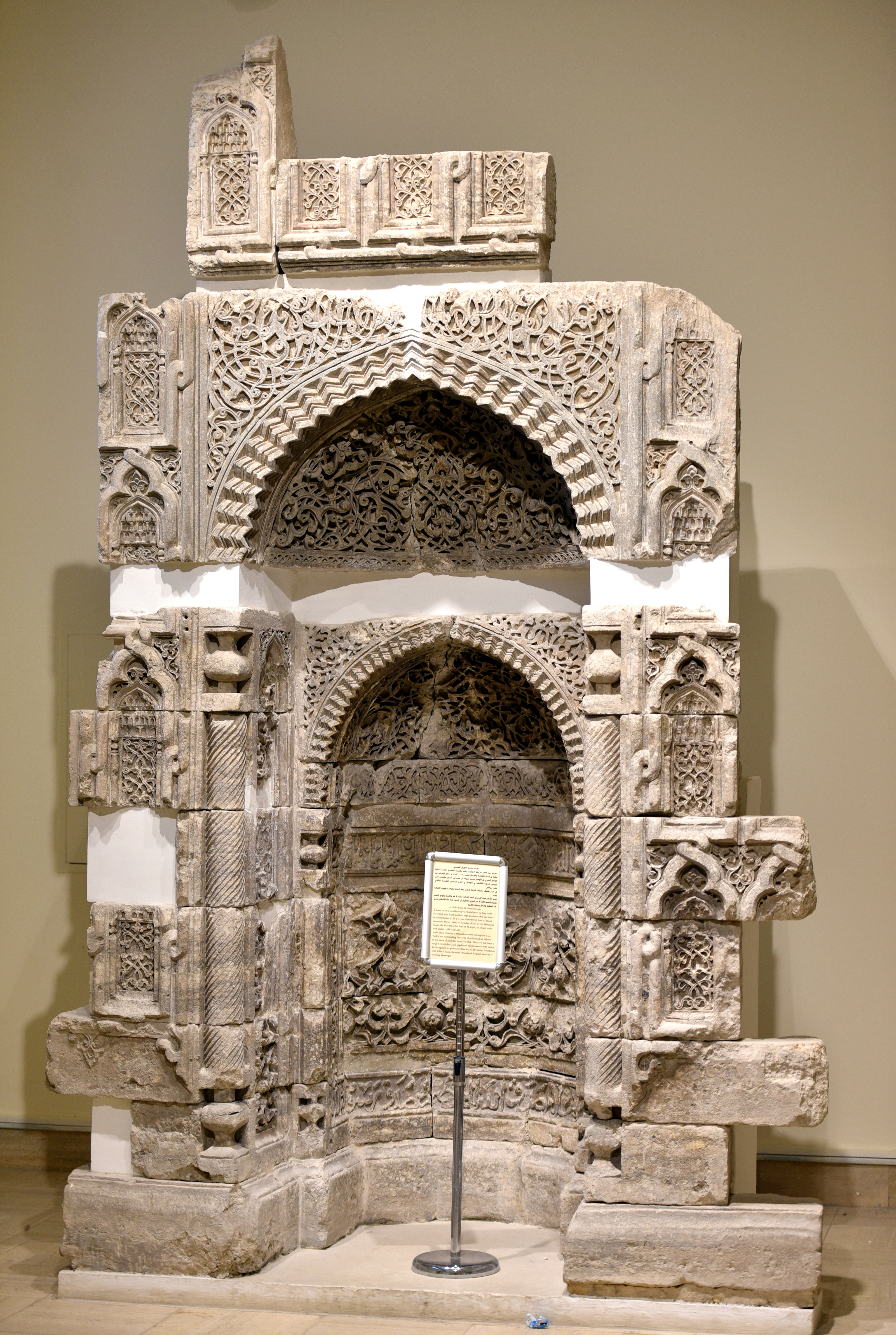 This mihrab was transferred from the Great Mosque of al-Nuri in Mosul, Iraq to the Iraq Museum in Baghdad. It dates to the reign of Nur ad-Din Zengi, 12th century CE (6th century AH). The mihrab is 3.35 by 2.44 meters is decorated with floral motifs and Quran verses (āyāt) from the holy Quran. Al Imran surah, ayat 18 and 19; "Allah witnesses that there is no deity except Him, and [so do] the angels and those of knowledge - [that He is] maintaining [creation] in justice. There is no deity except Him, the Exalted in Might, the Wise. Indeed, the religion in the sight of Allah is Islam". Stone. It is on display at the Islamic Gallery of the Iraq Museum in Baghdad.